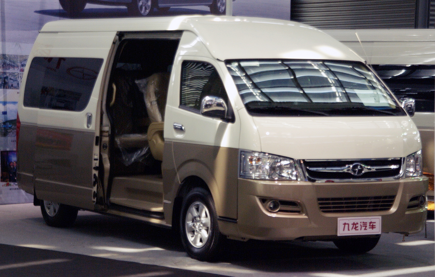 Jiangsu Joylong HKL6540/6541, a Toyota Hiace H200 clone at the 2011 Shenzhen-Hong Kong-Macau International Auto Show.